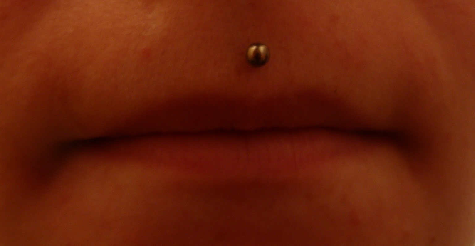 Philtrum or Medusa piercing.